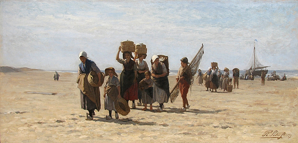 Op weg naar huis